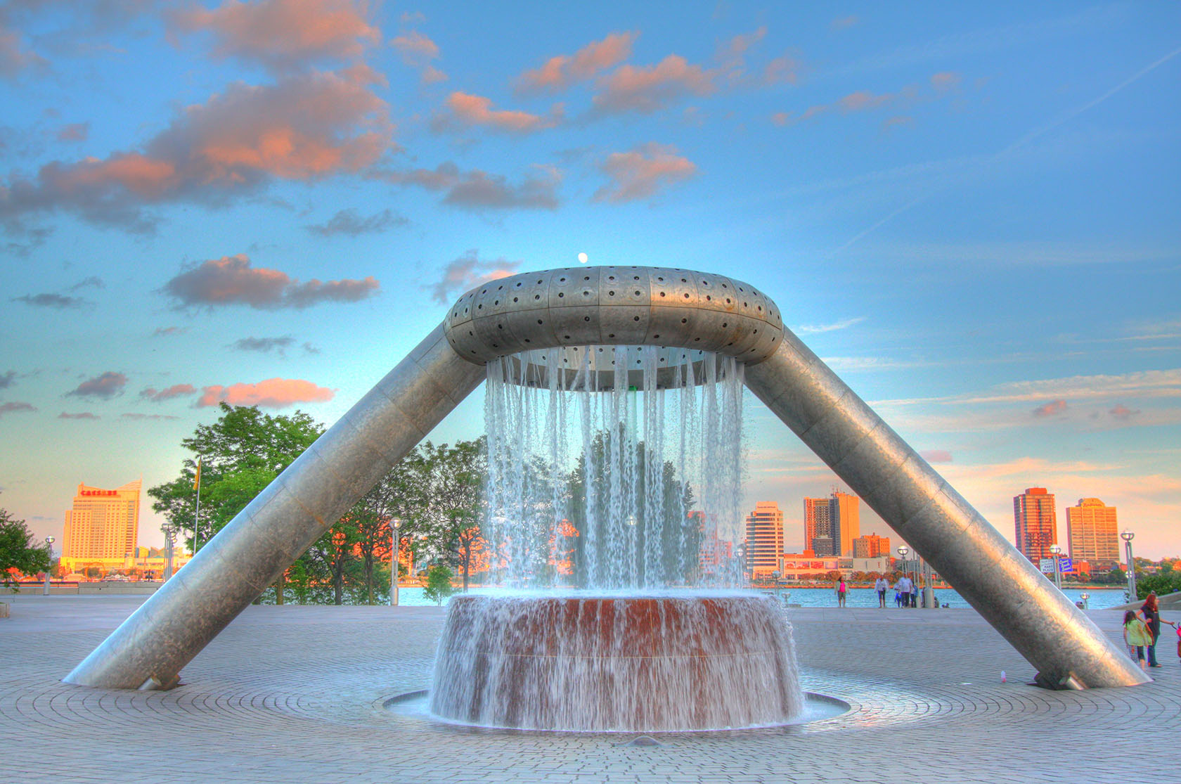 Horace E. Dodge and Son Memorial Fountain in Detroit's Hart Plaza - view from front